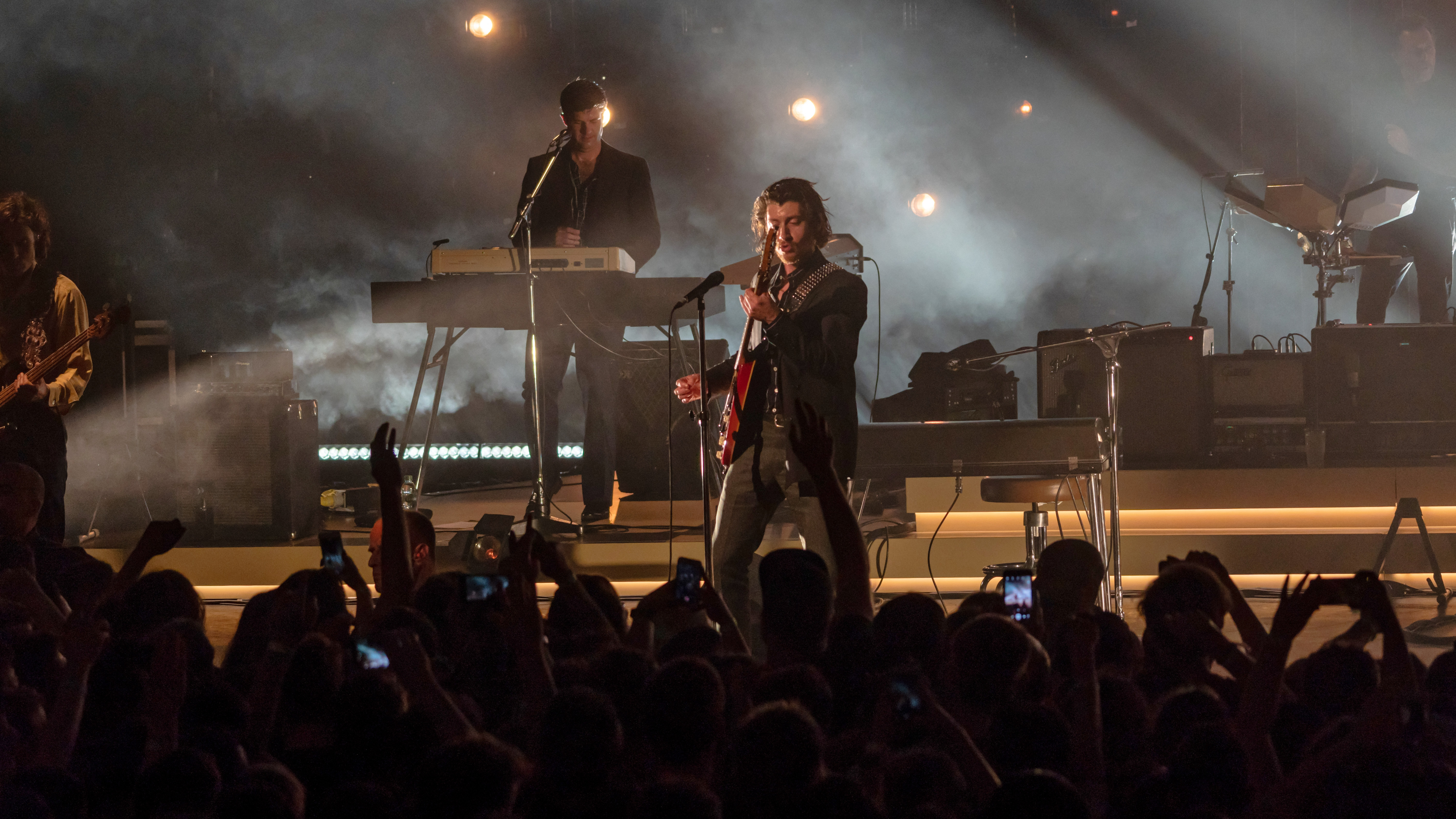 ArcticMonkeysRAH070618 (11)